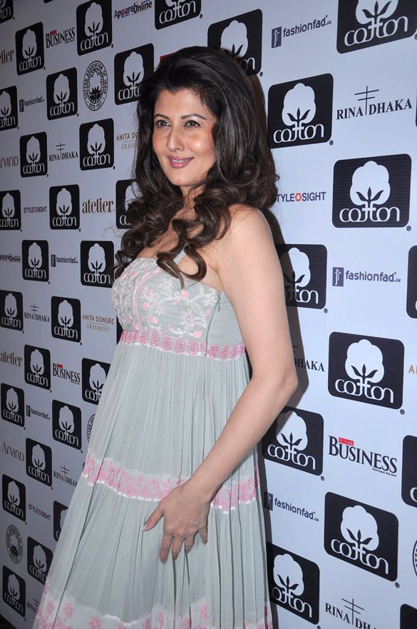 Sangeeta Bijlani at Cotton Council show